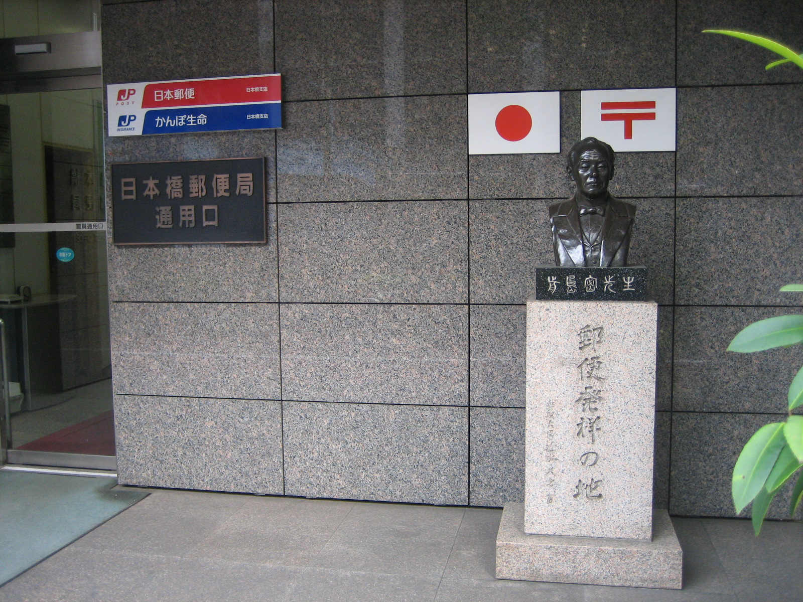 The birthplace of postal service in Japan